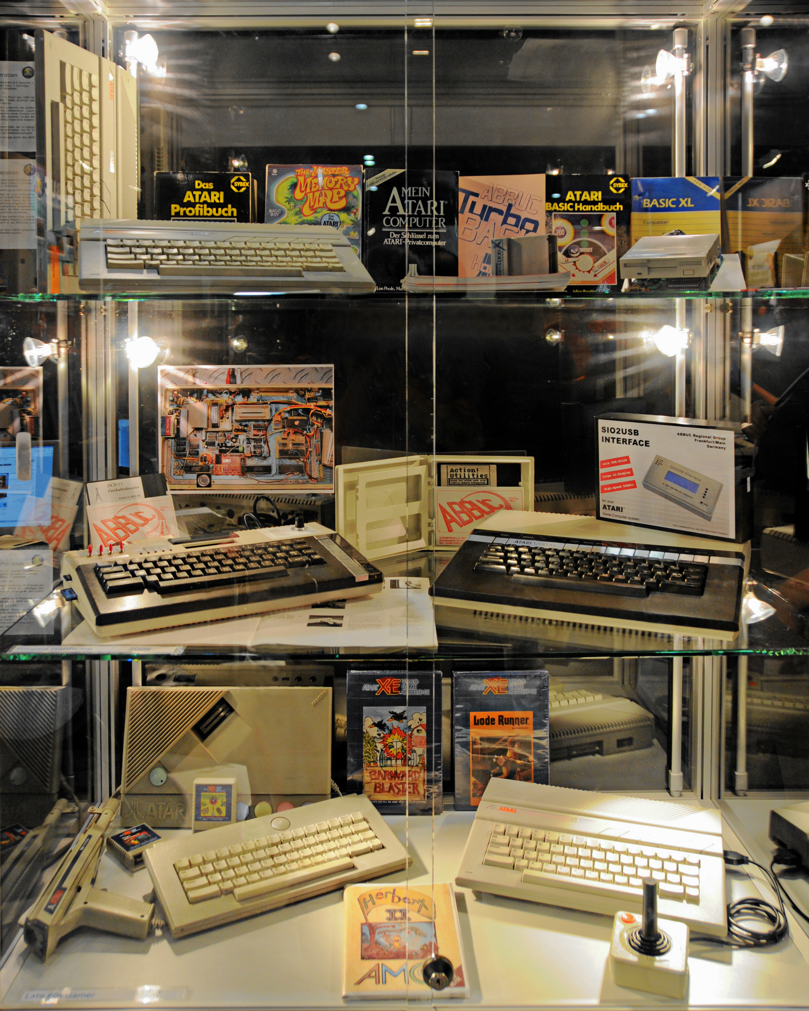 Games Convention 2008, Atari 8/16 bit collection